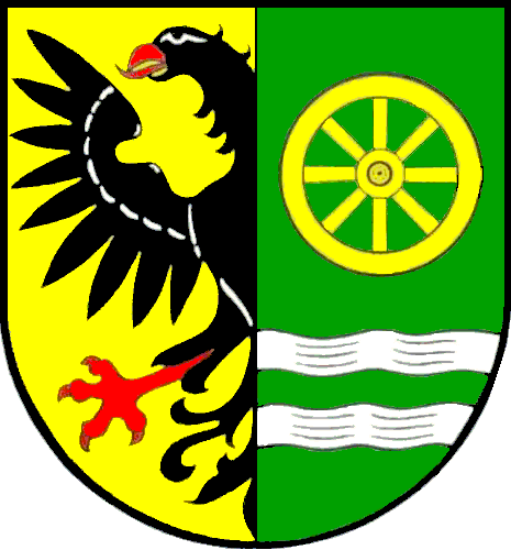 Coat of arms of the former municipality Amt (county) Kirchspielslandgemeinde Lunden in Schleswig-Holstein, Germany.